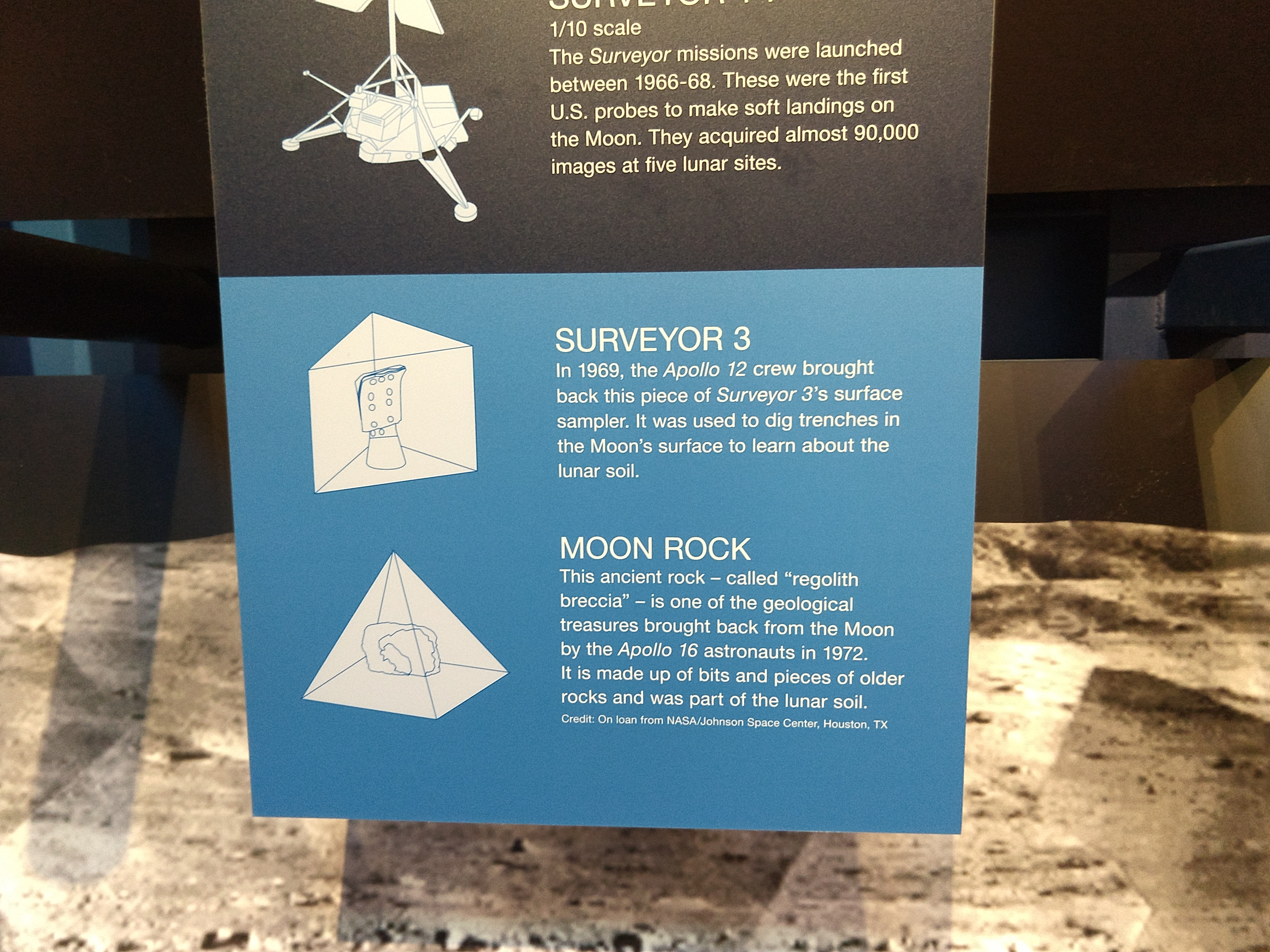 Informational sign for Soil mechanics surface sampler from the Surveyor 3 spacecraft returned to Earth by the crew of Apollo 12. On display in the Von Karman Visitor Center at the Jet Propulsion Laboratory. Also includes information on nearby lunar rock from Apollo 16.